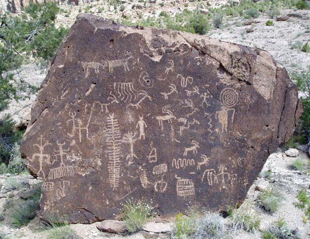 Petroglyph panel in BLM Big Rocks Wilderness area, North Pahroc Range, Nevada